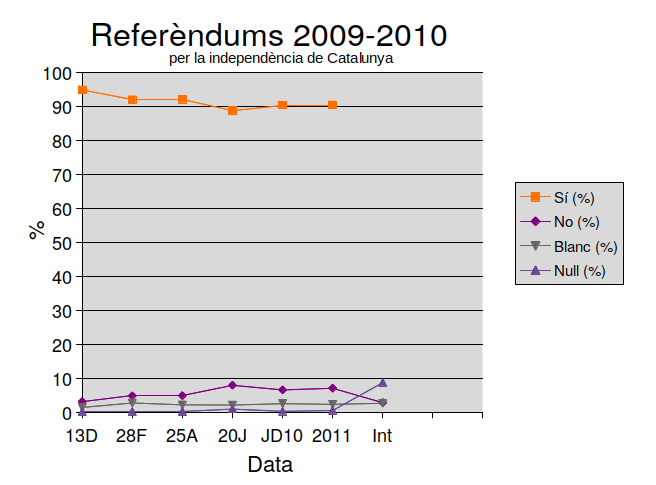 Catalonian independence referendums, 2009–2011 results.